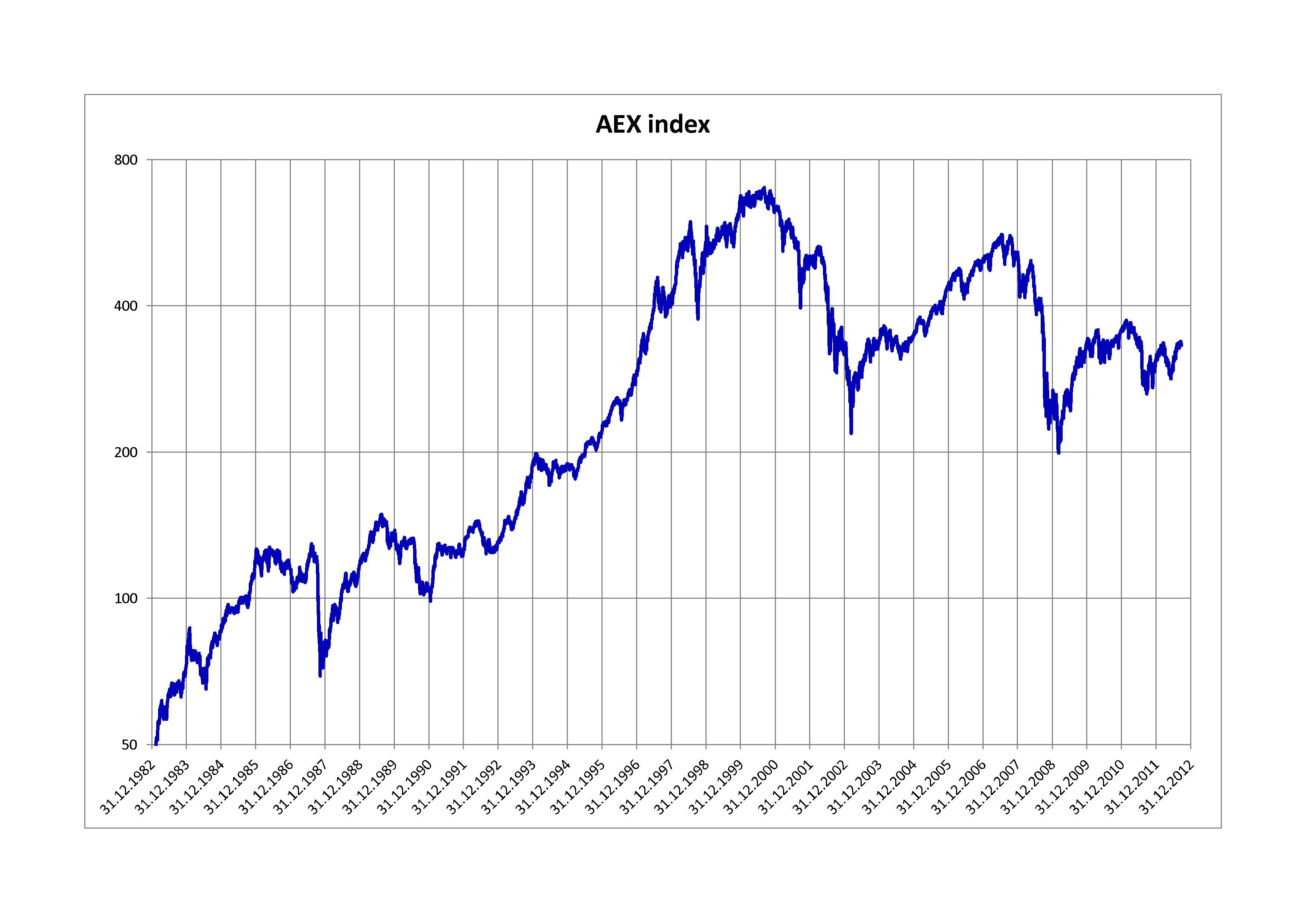 AEX index from December 1982 to September 2012 (daily closings)